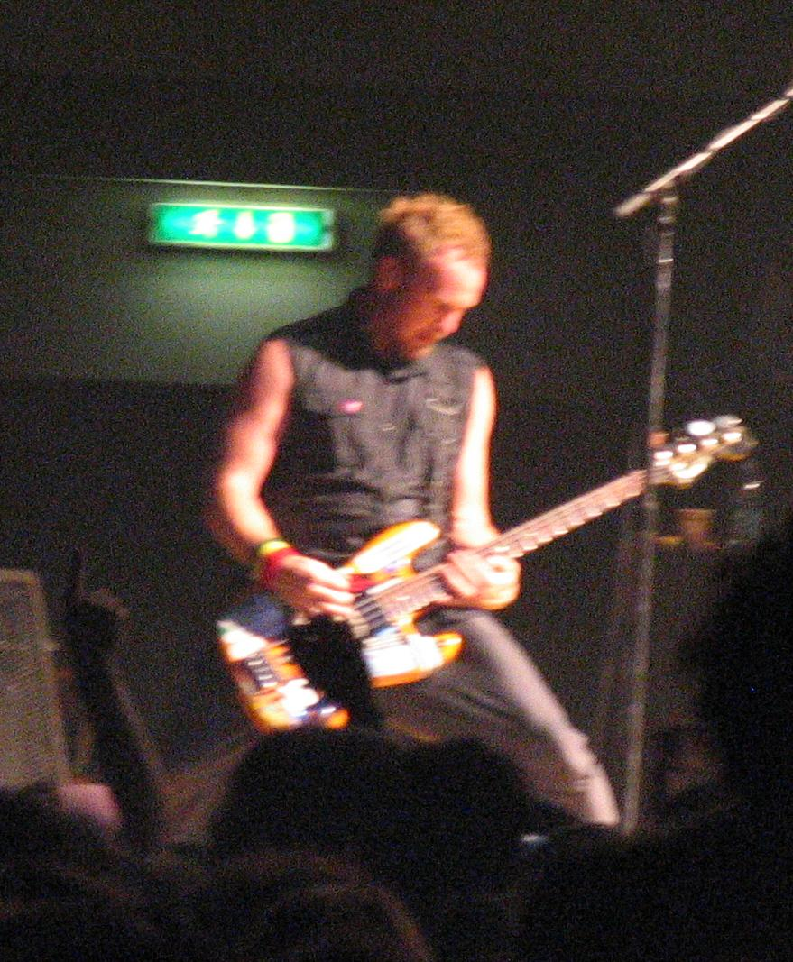 Picture of Jeff Ament of Pearl Jam in concert, taken on September 14, 2006.